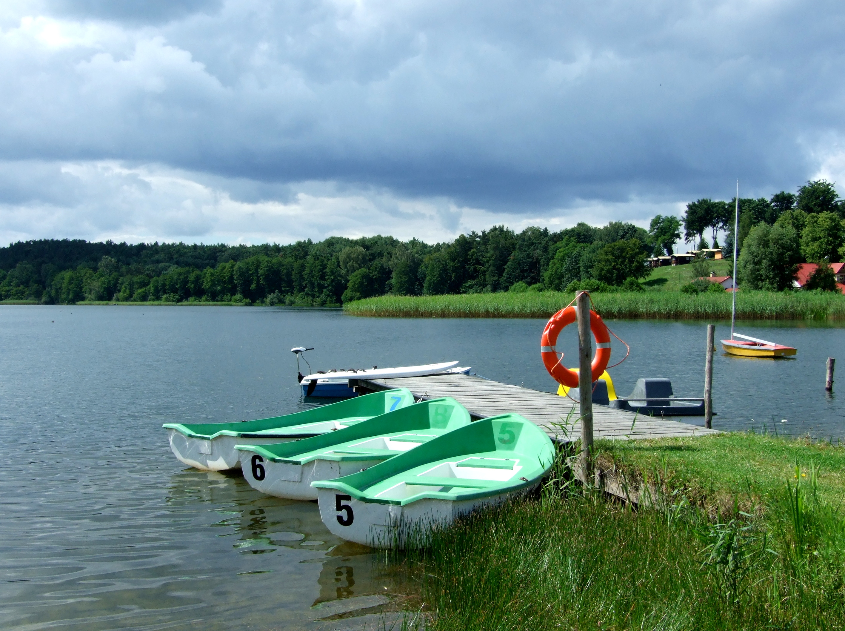 Wisełka Lake, Poland